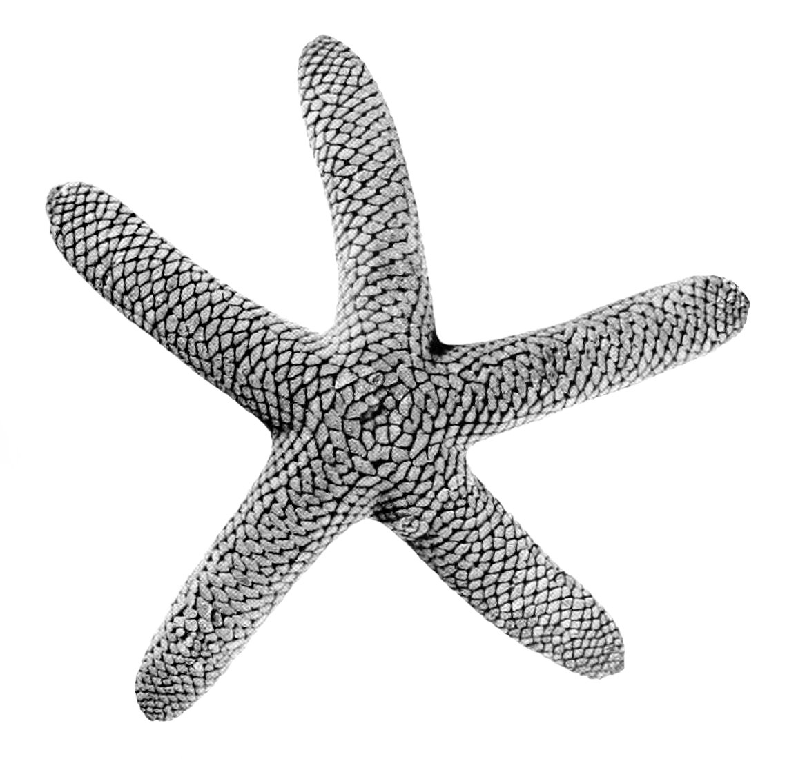 Plate 21. Fig. 5. Parasterina occidentalis H. L. C. Holotype. Not quite x 2. [= syn. of Pseudonepanthia troughtoni] (In the colored plates, all figures are shown natural size, with the aboral or (in holothurians) dorsal side up, unless otherwise stated. Unless designated as young, the specimens were normal adults but in some cases small individuals were selected to save space. In the uncolored plates, the dorsal side is shown, but in some species the oral side is also presented. As a rule the holotype serves as the basis of the photograph. The magnification varies but is indicated in each case.)